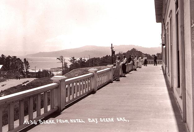 A view from the hotel in historic Bayocean, Oregon.